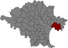 Location of Roses in Alt Empordà